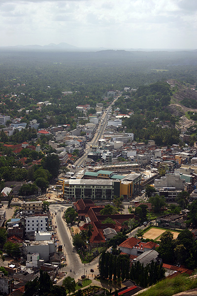 View of Kurunegala from top of Ethagala. Uploaded by photographer. Taken 7/24/04, Kurunegala, Sri Lanka.